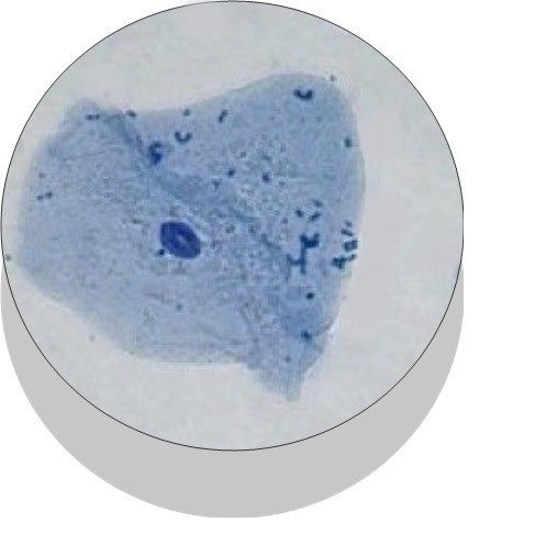 Animal eukaryotic cell